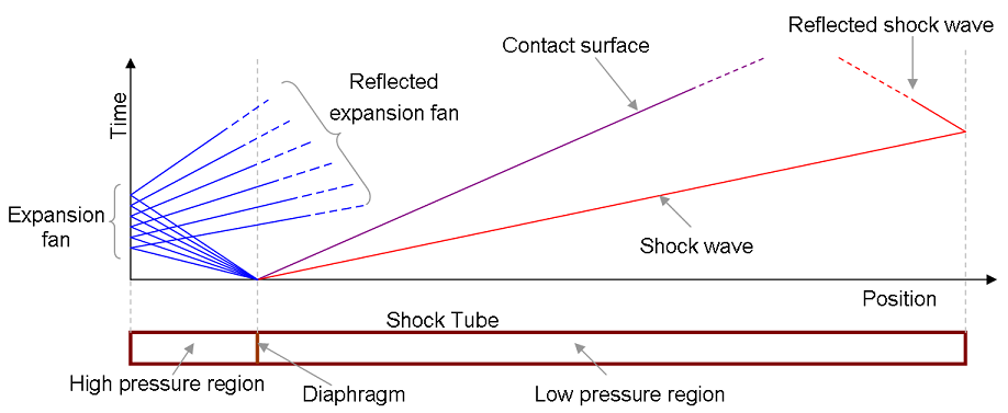 The figure describes the different waves formed in a shock tube. The interaction of the expansion fan and the reflected expansion fan is not accounted for in the figure.